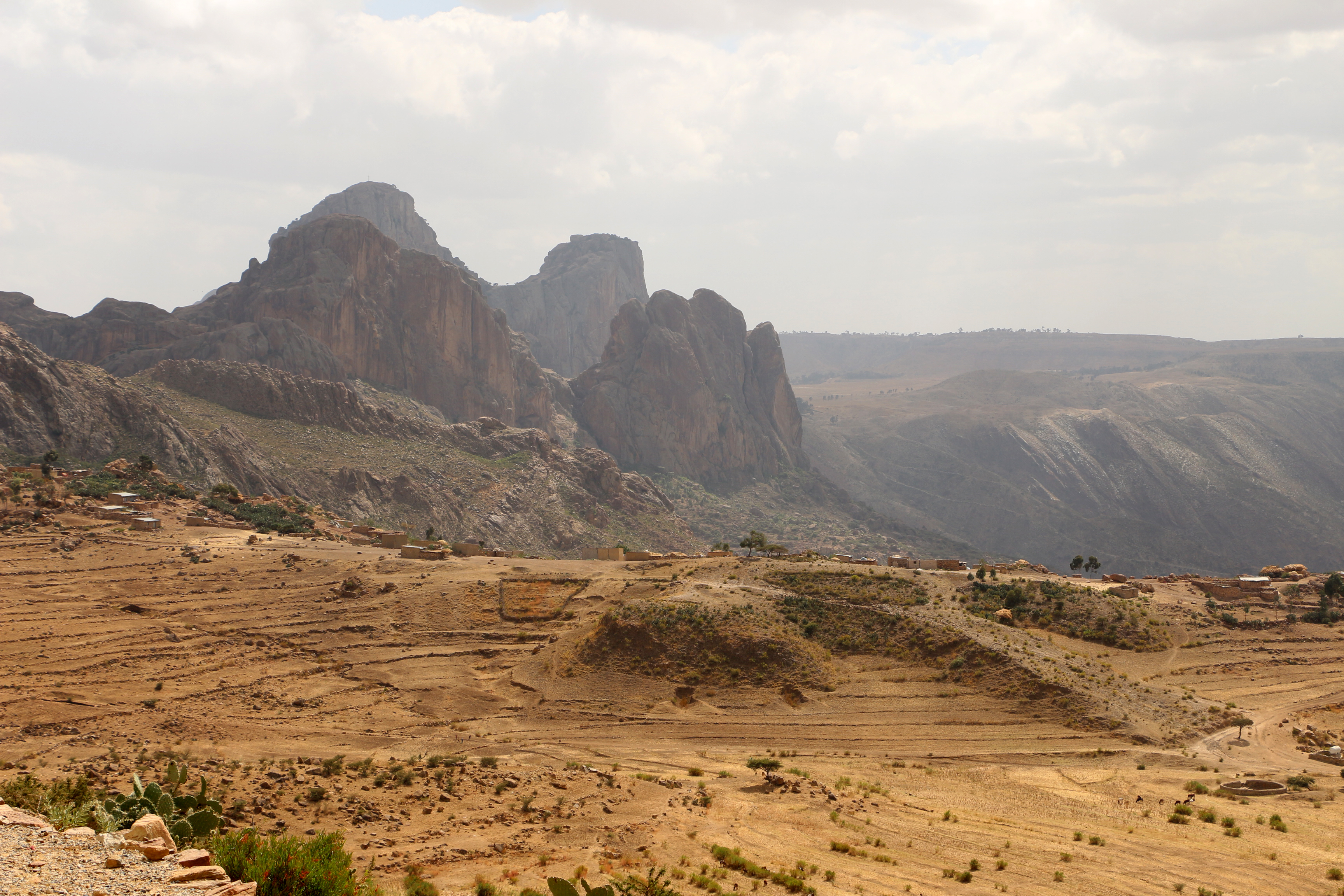 Senafe